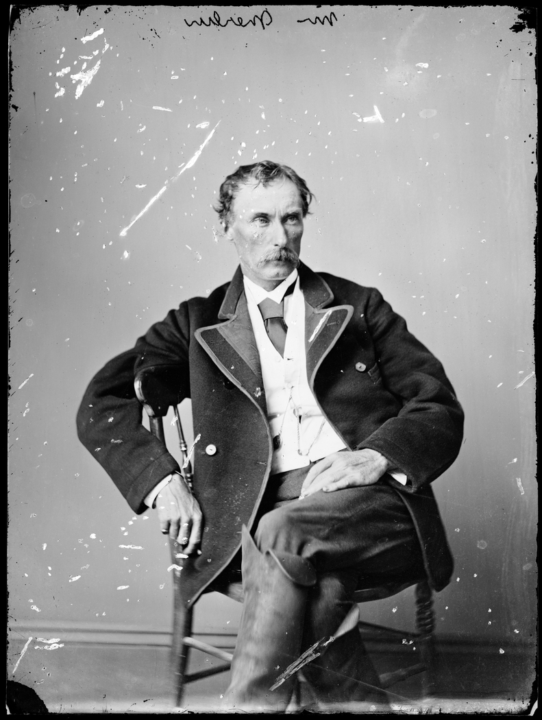 Portrait of Henry Beaufoy Merlin, from original quarter plate negative